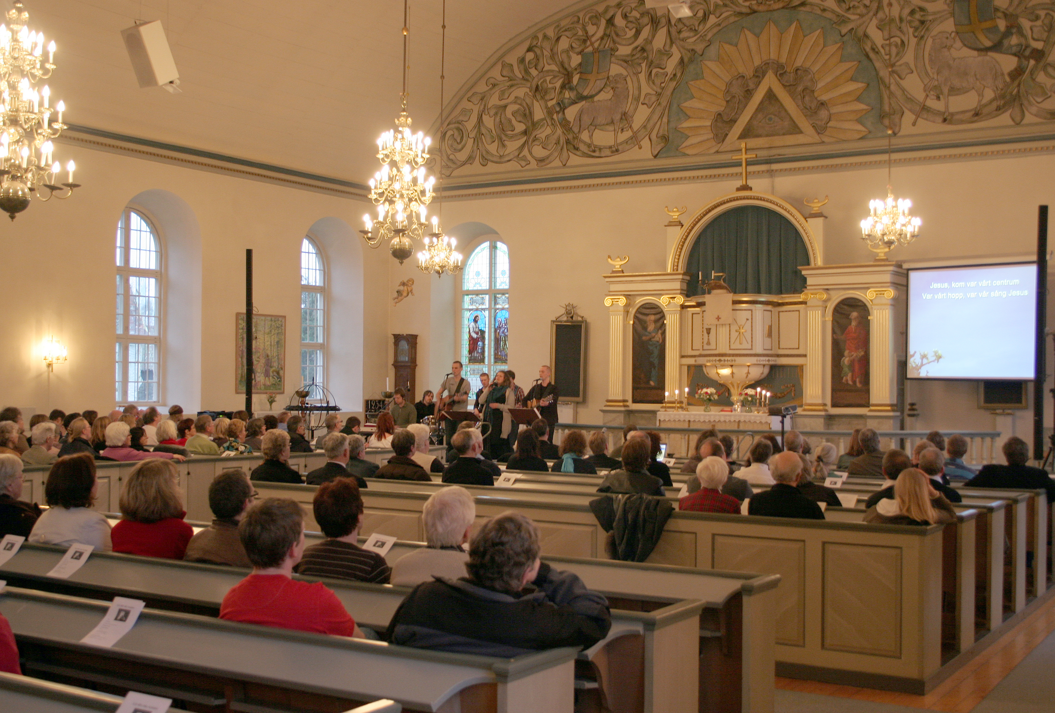 Christian service in Glimåkra kyrka, parish church of Glimåkra in Scania, Sweden.